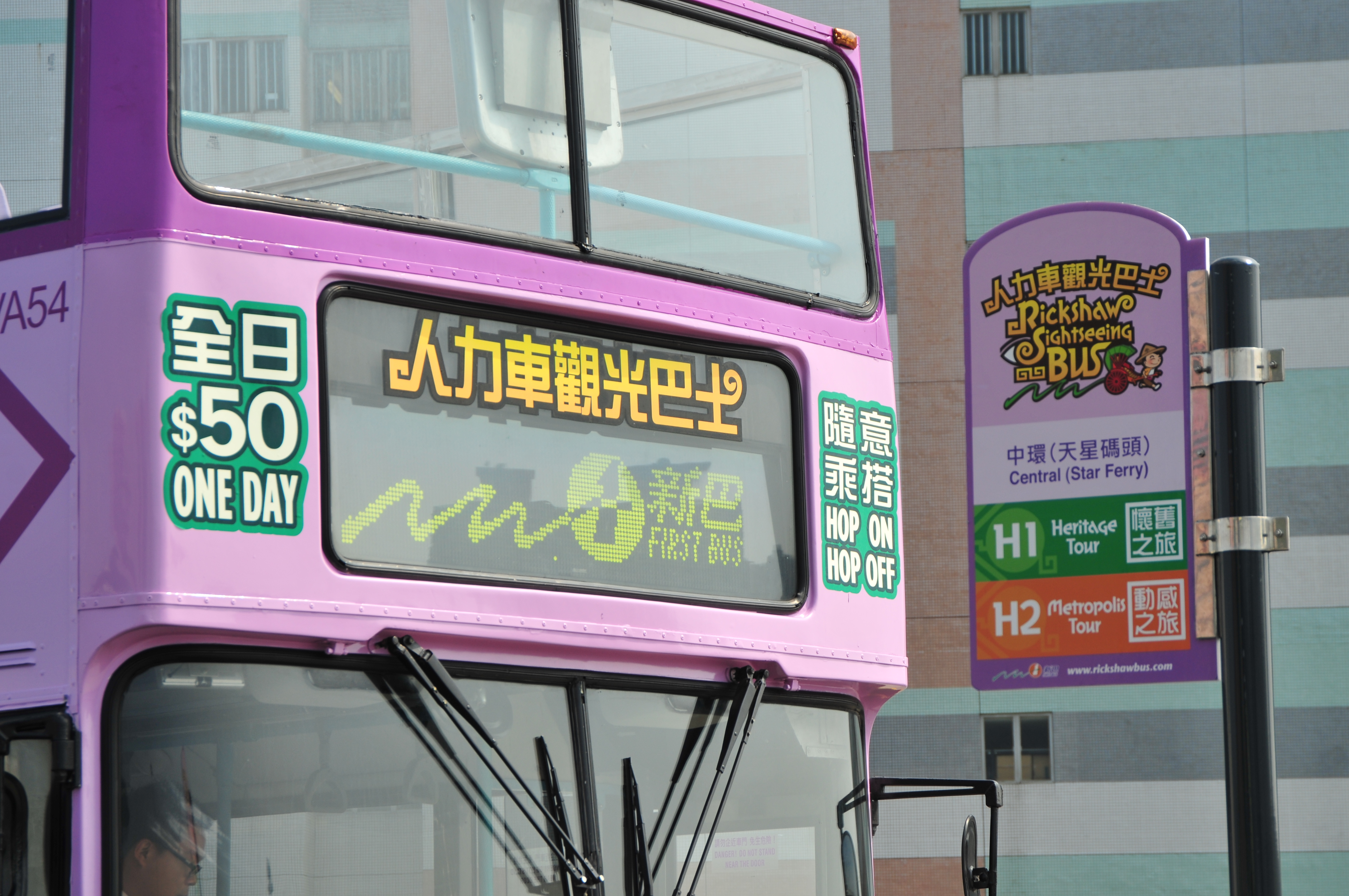 Bus Overhead Panel and The bus flag of Rickshaw Sightseeing Bus